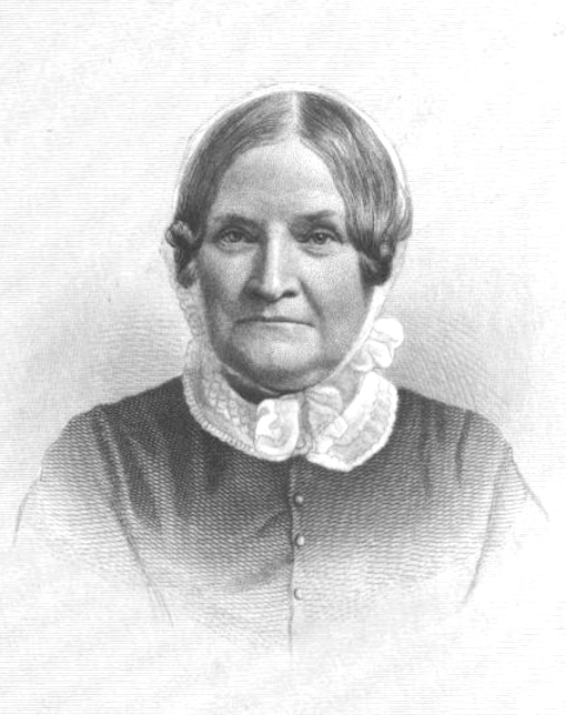 Engraving of abolitionist and writer Lydia Maria Child (1802-1880) from Letters of Lydia Maria Child, compiled by John Greenleaf Whittier and Wendell Phillips, published by Houghton, Mifflin, 1882. Heavily adjusted for brightness/contrast.